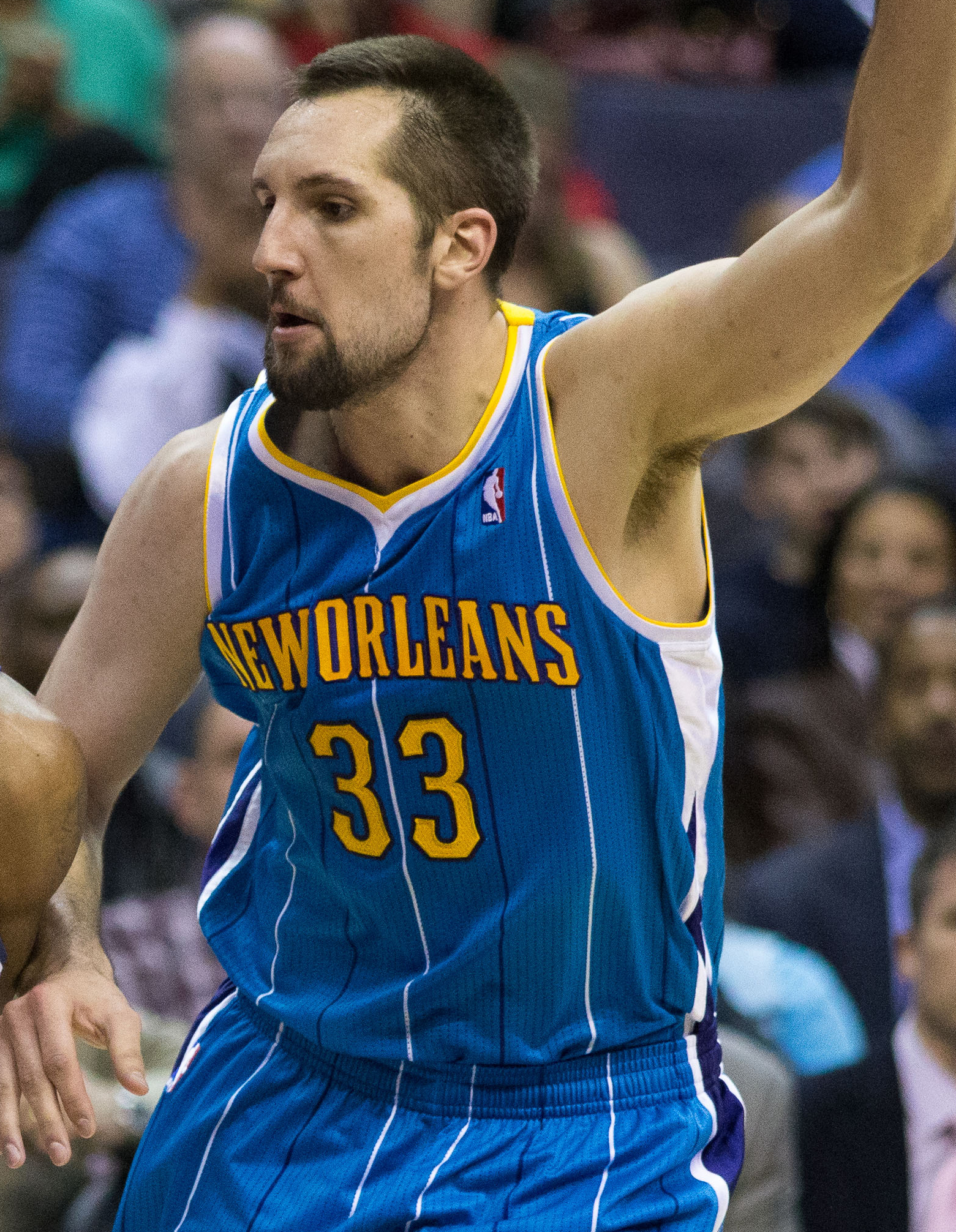 Ryan Anderson